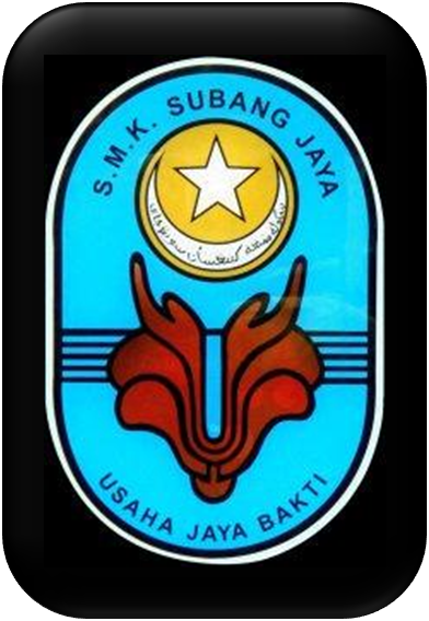 This is an official school logo of SMK SJ